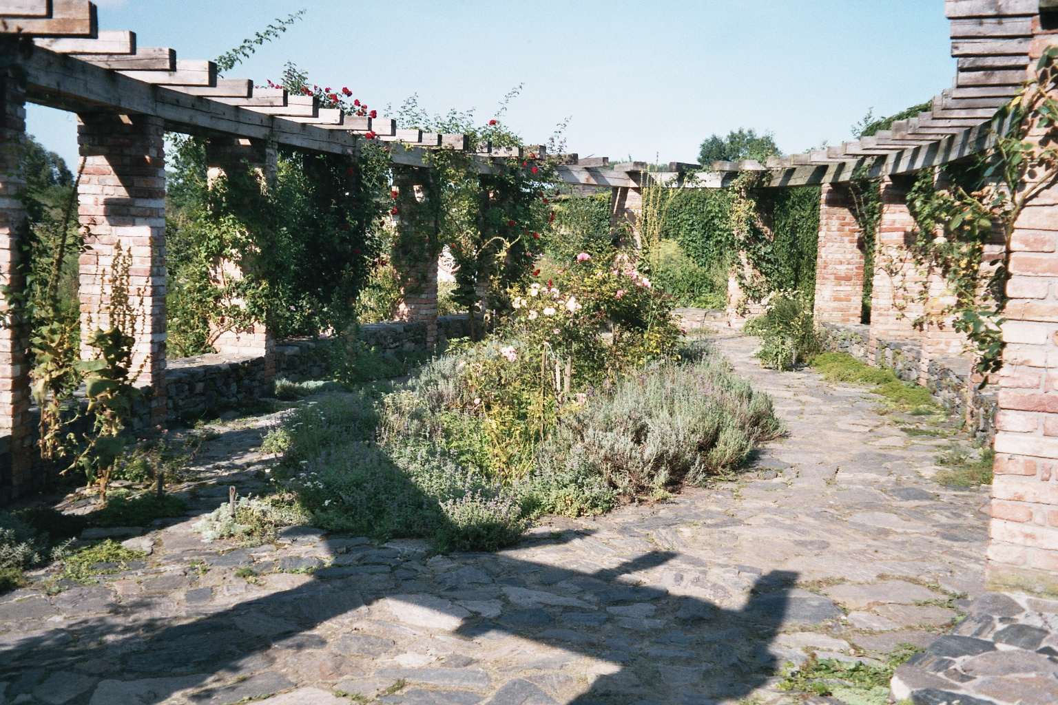 Třebešice (château_KH) G. Garden, Northern Part, Kutná Hora District, the Czech Republic.